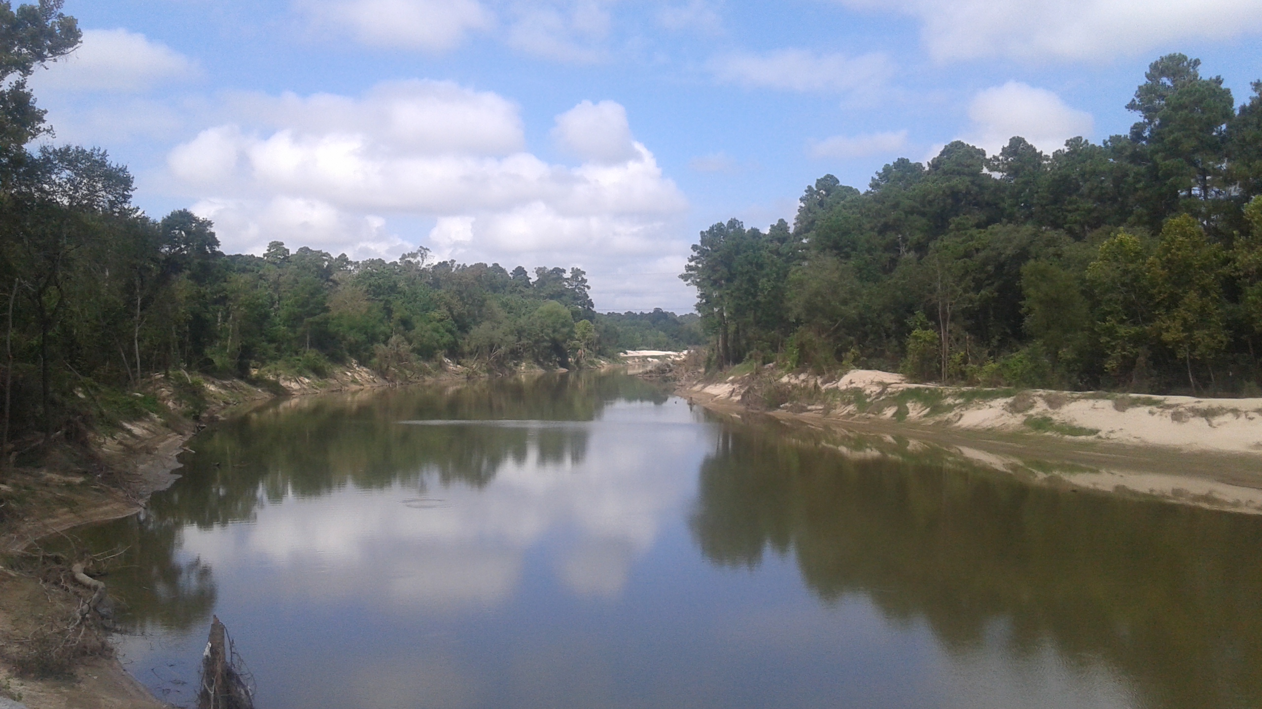 Spring Creek as seen from the Spring Creek Greenway between Pundt Park and Dennis Johnston Park in Harris County, Texas.